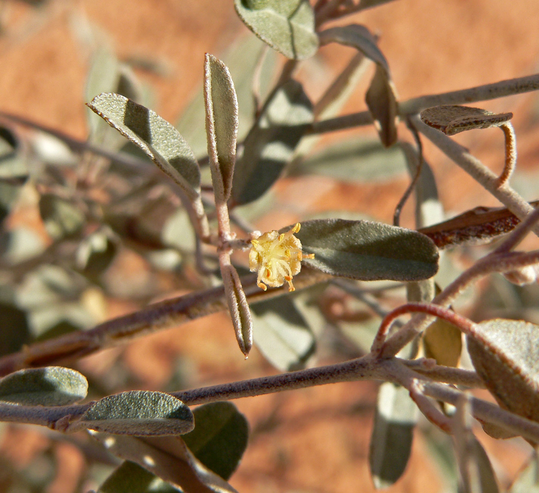 Croton californicus in the White Domes area, Valley of Fire, southern Nevada